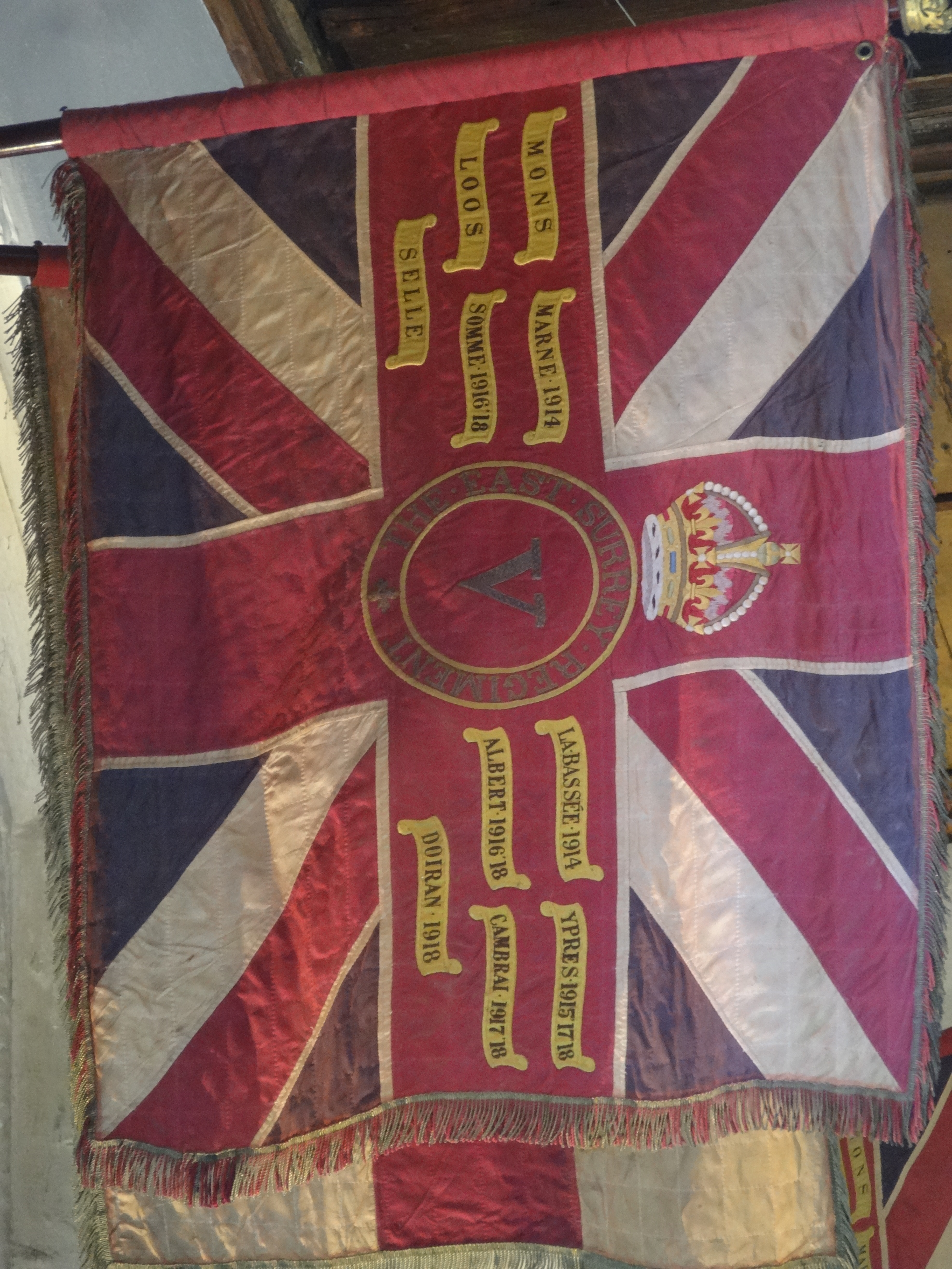 All Saints church, Kingston upon Thames, side chapel commemorating the East Surrey regiment